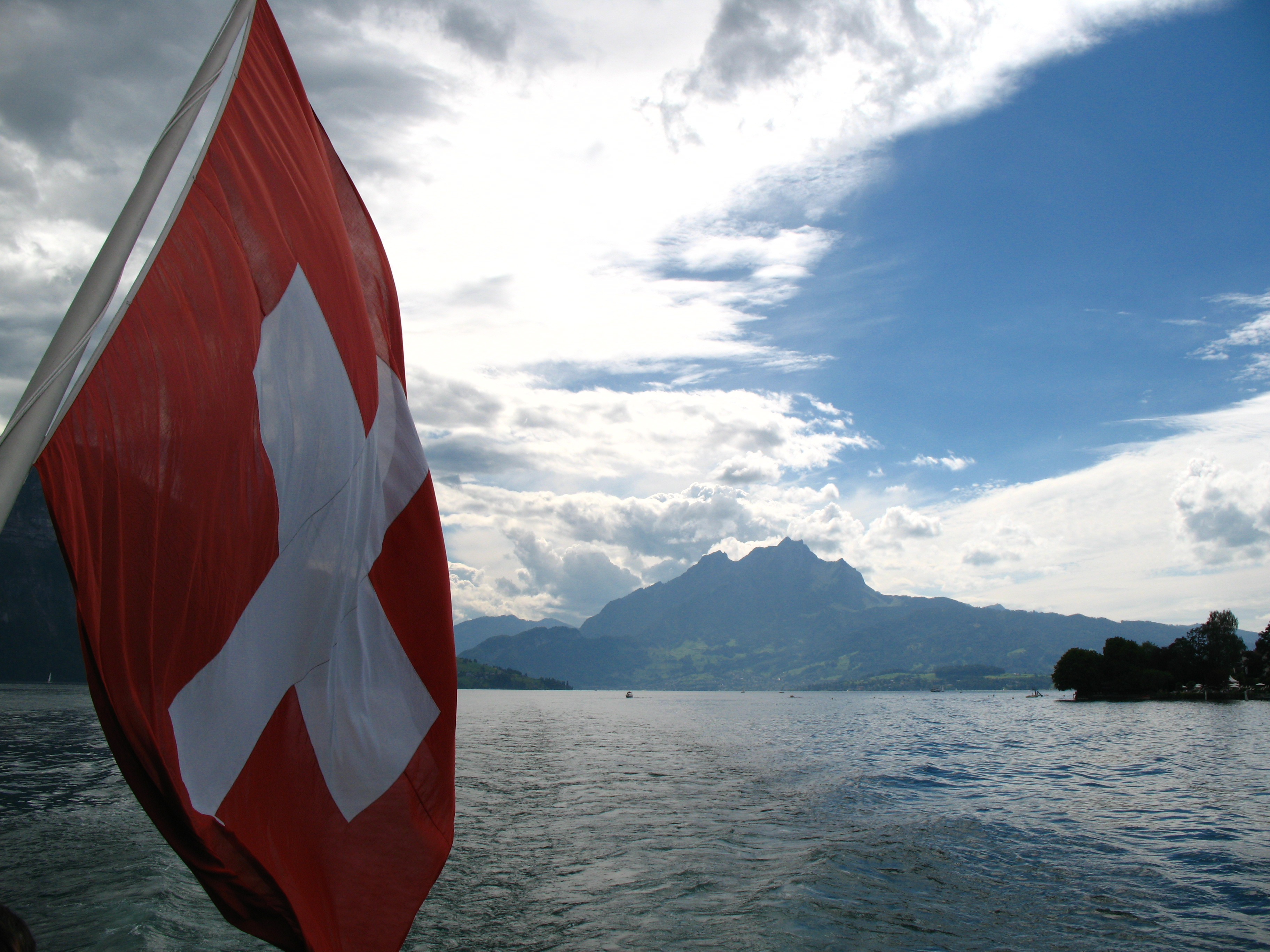 Lake Lucerne, Weggis, Switzerland